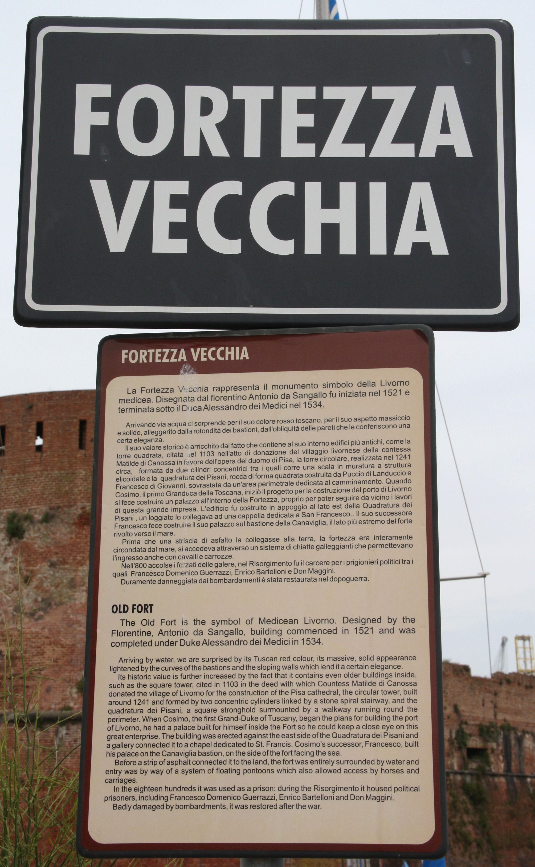 Italy, Livorno. The sign with the historical description of Fortezza Vecchia.